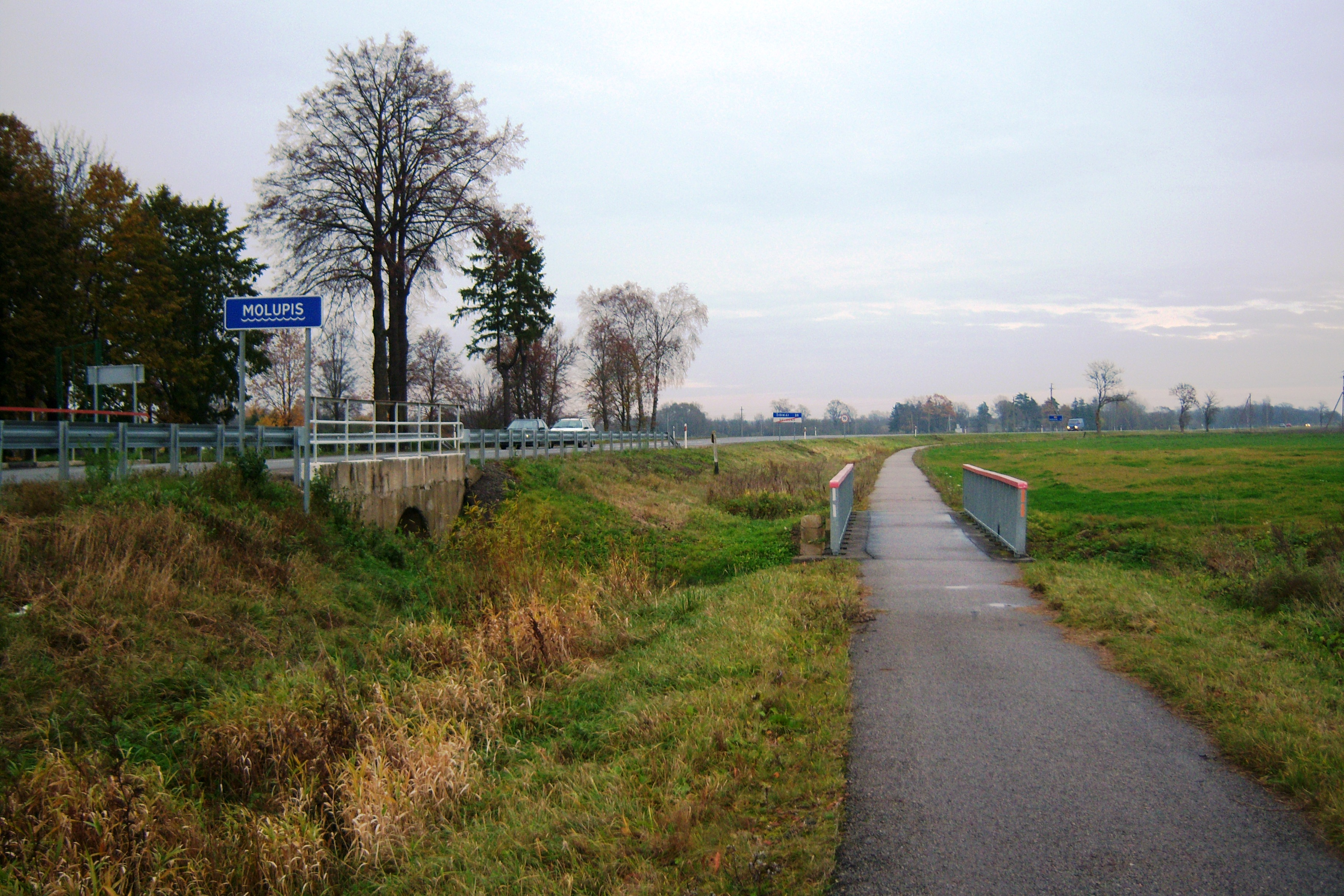 Road KK170 and bicycle path crossing Molupis River near Skuodas, 110 m away from Vilniaus and Mažeikų Streets intersection, Lithuania